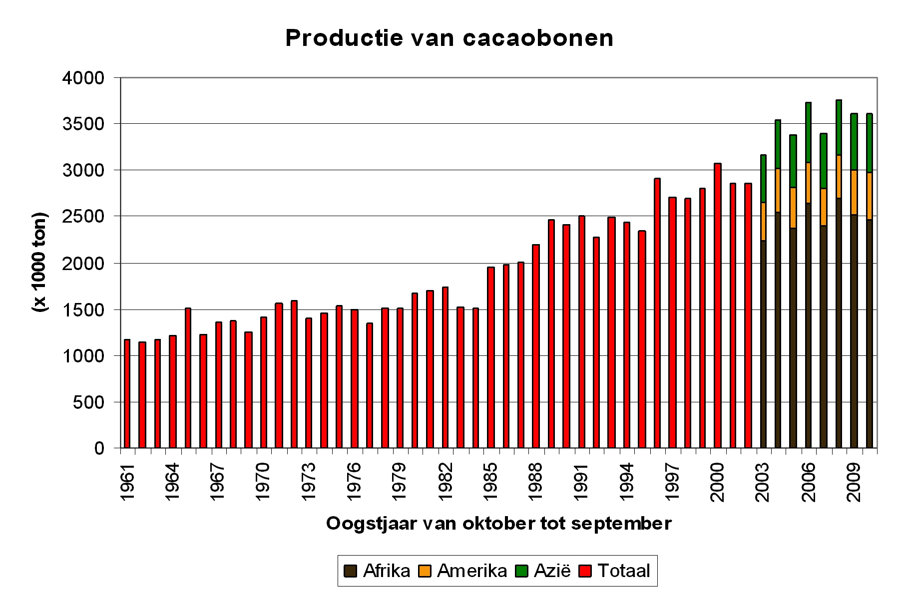 Global production of cocoa beans (in thousand tonnes). Source: ICCO annual reports and statistics. Note: 1961 is harvestyear from 1 Oct 1960 - 30 Sep 1961